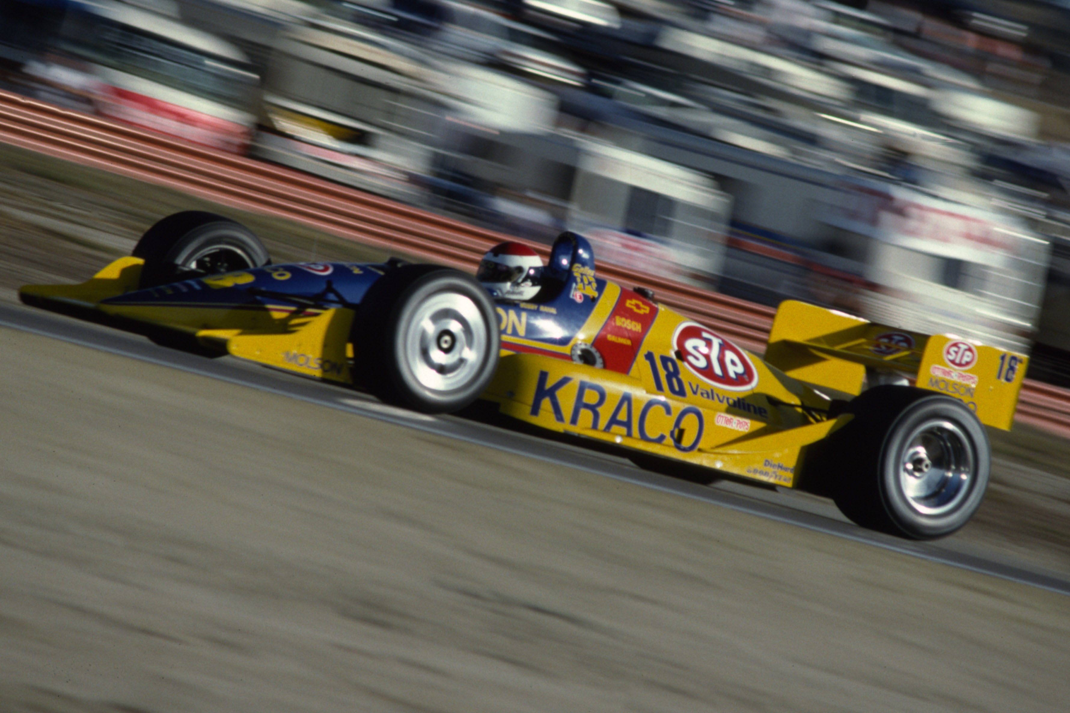 Bobby Rahal At Laguna Seca in the Galles-Kraco/STP car - CART Toyota Monterey Grand Prix at Laguna Seca - Monterey, CA - October 1991. Out takes from a magazine shoot. Scanned from Kodachrome 64 slide.